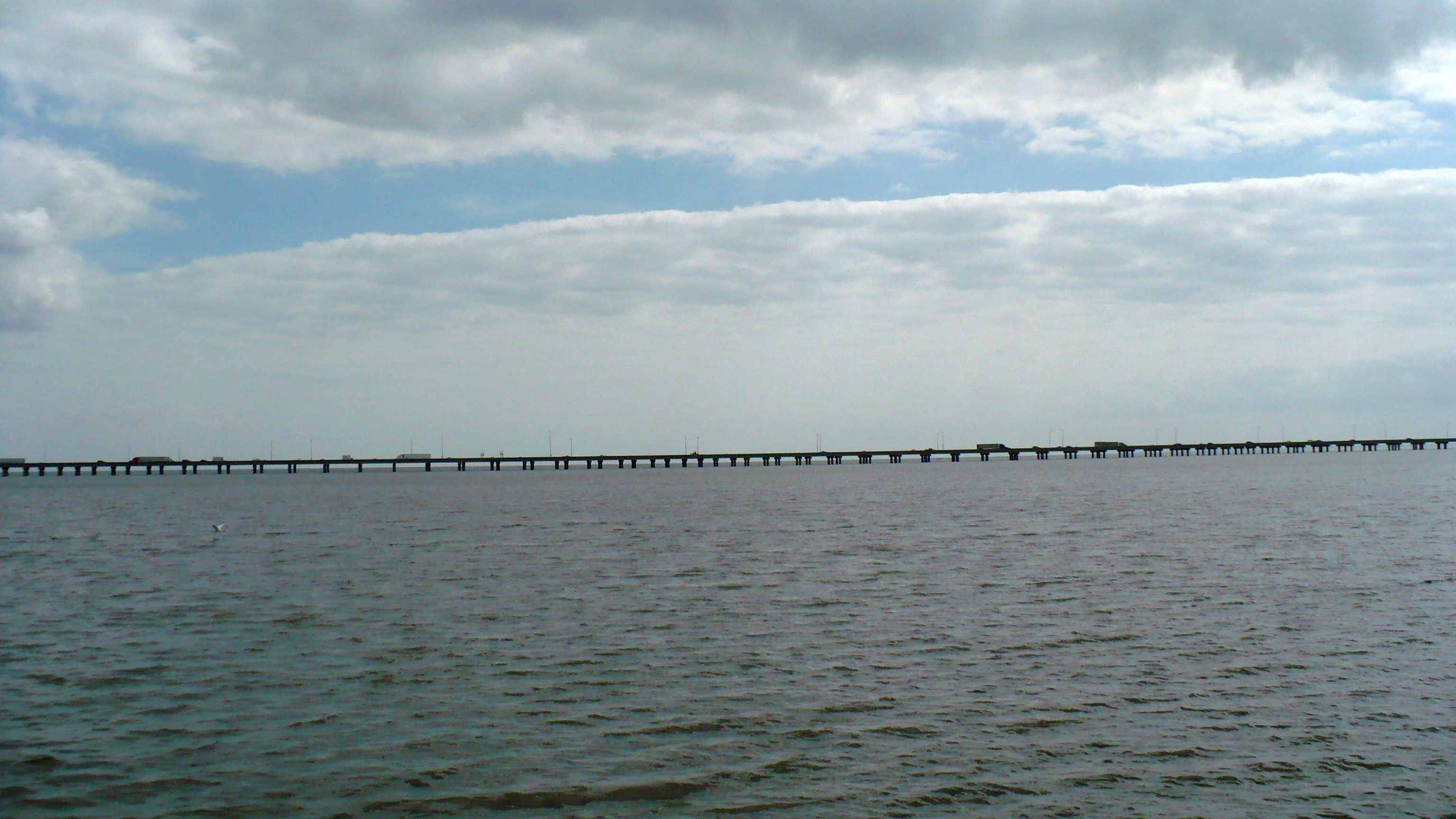 A portion of the Jubilee Parkway between Spanish Fort/Daphne and Mobile in Alabama. View from Meaher State Park.